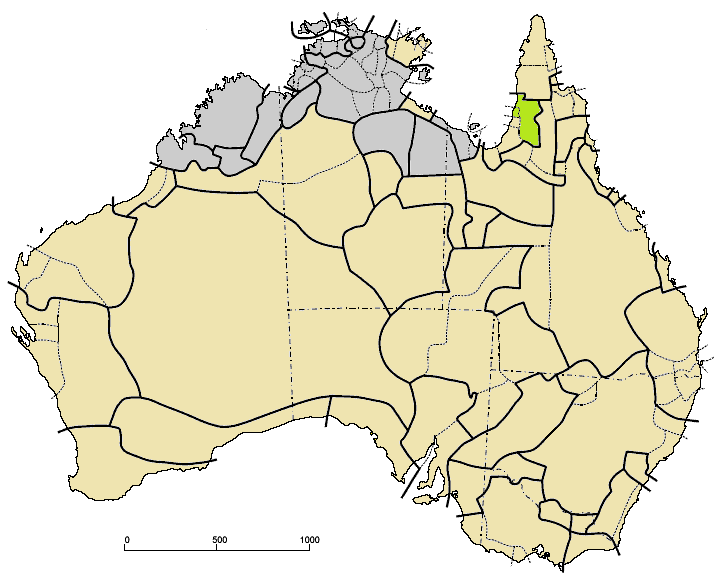 Southwestern Paman languages (green) among other Pama–Nyungan (tan)